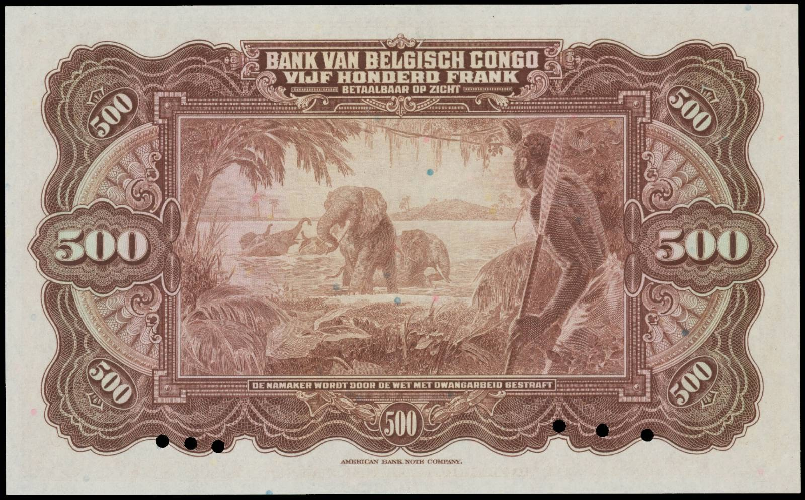 Reverse of 500 Belgian Congo francs, featuring elephant hunt in Africa.